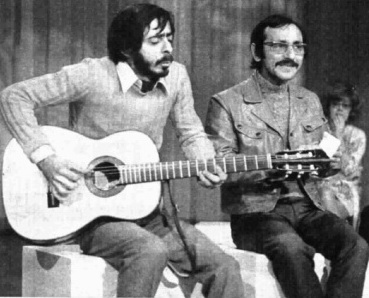 Italian comedians Mario & Pippo Santonastaso